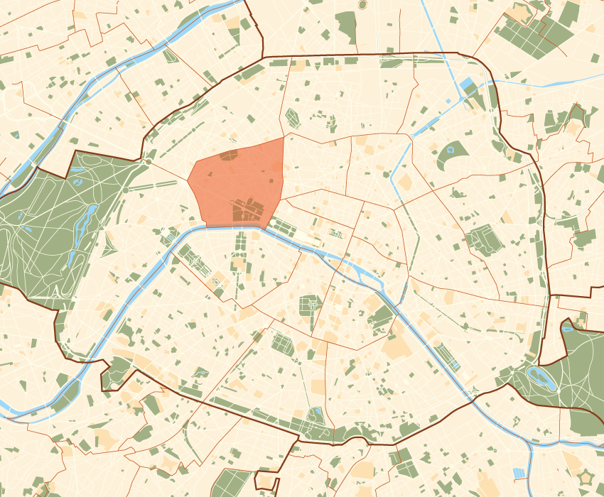 Plan by ThePromenader (own work)